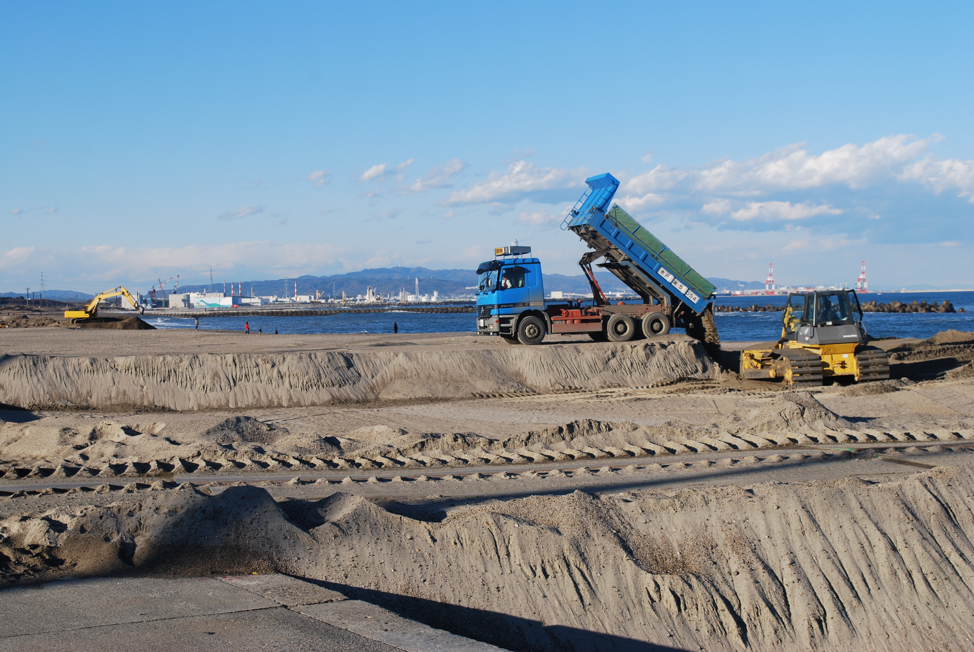 Construction for preventing coastal erosion at Ajigaura Beach in Hitachinaka City, Ibatraki Prefecture, Japan